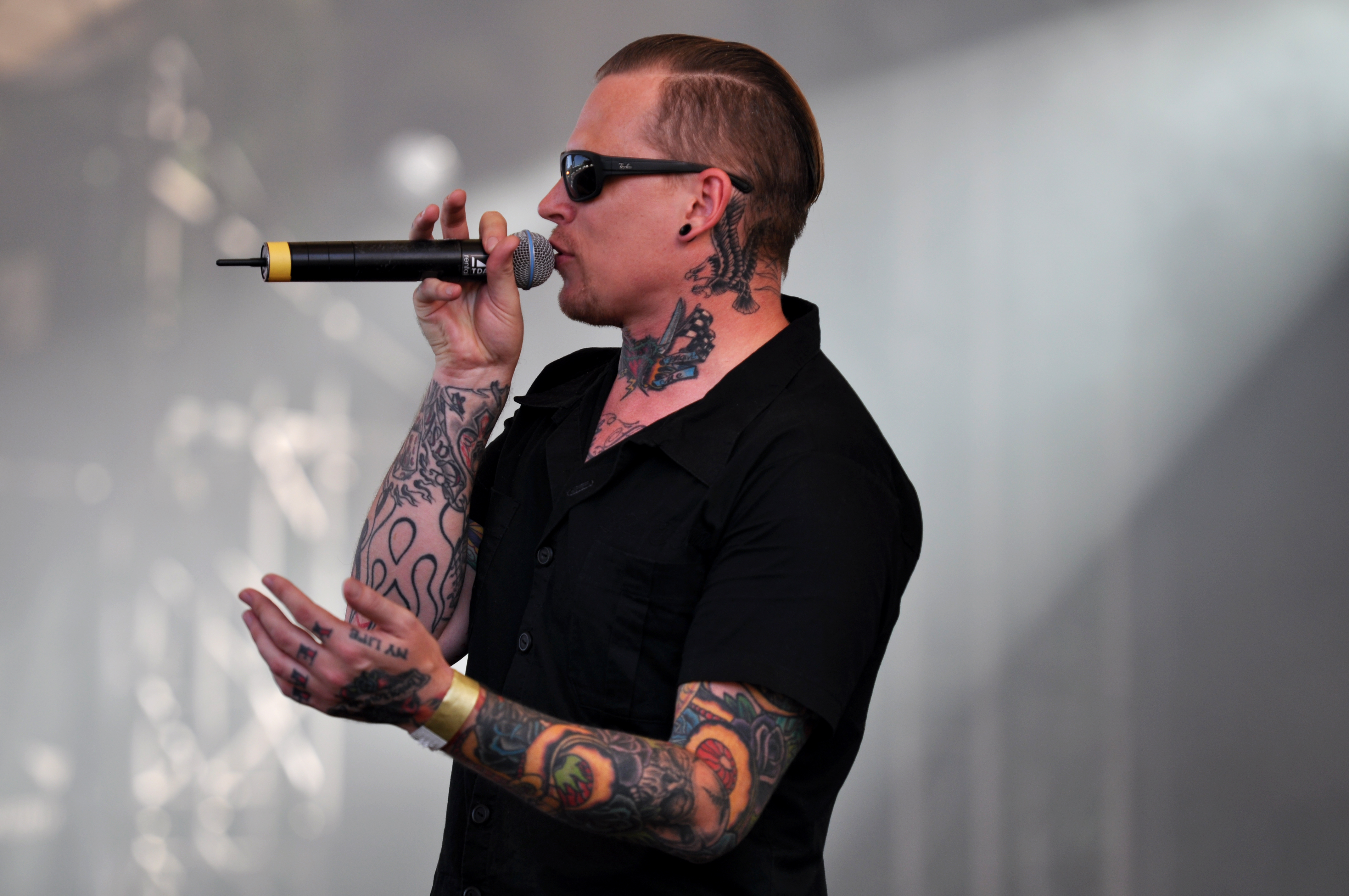 Icon of Coil at the Amphi Festival 2013, Cologne, Germany